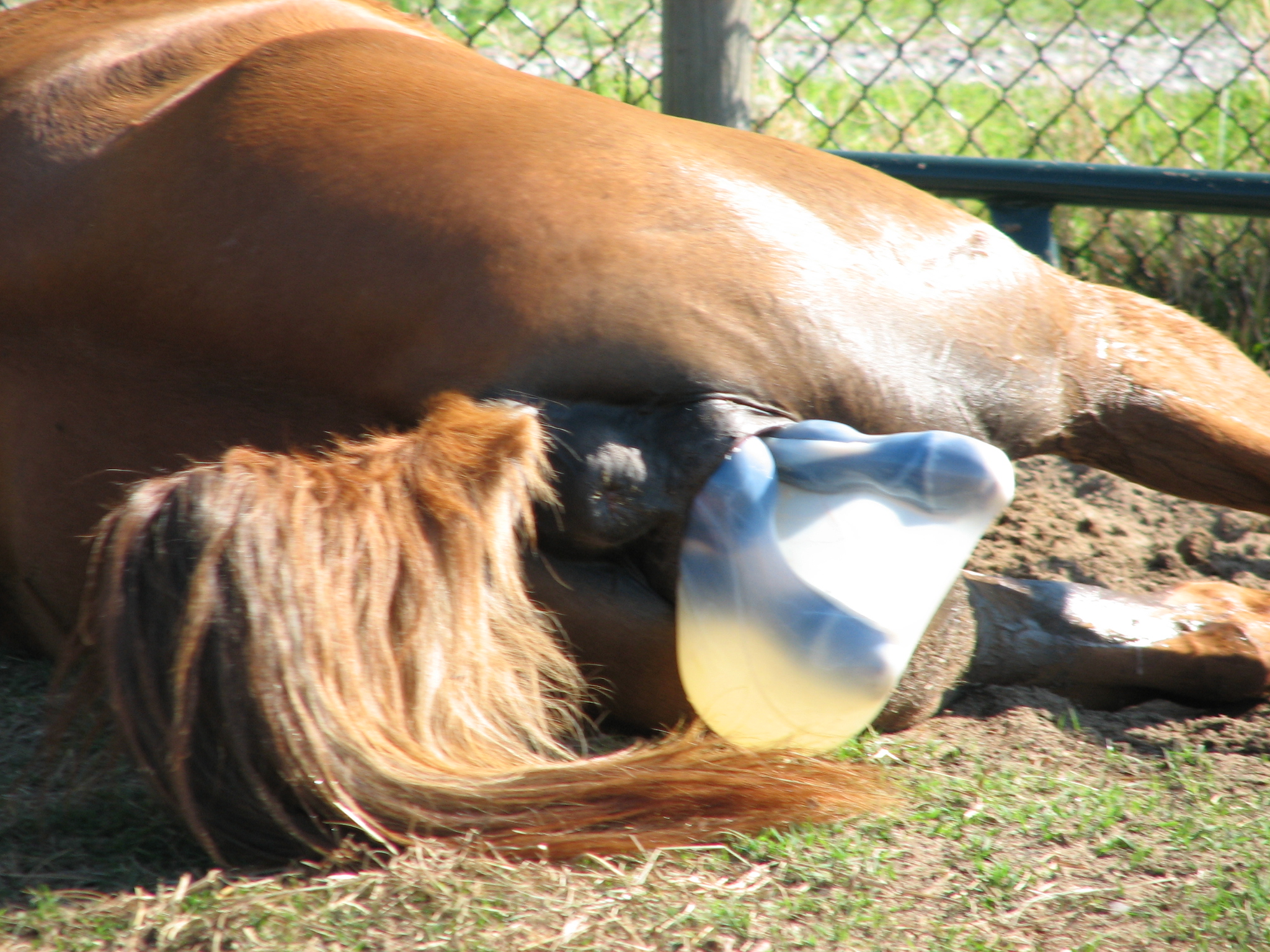 On Earth Day 2009, my mare "Baby" gave birth to the Azteca filly, "Tia."